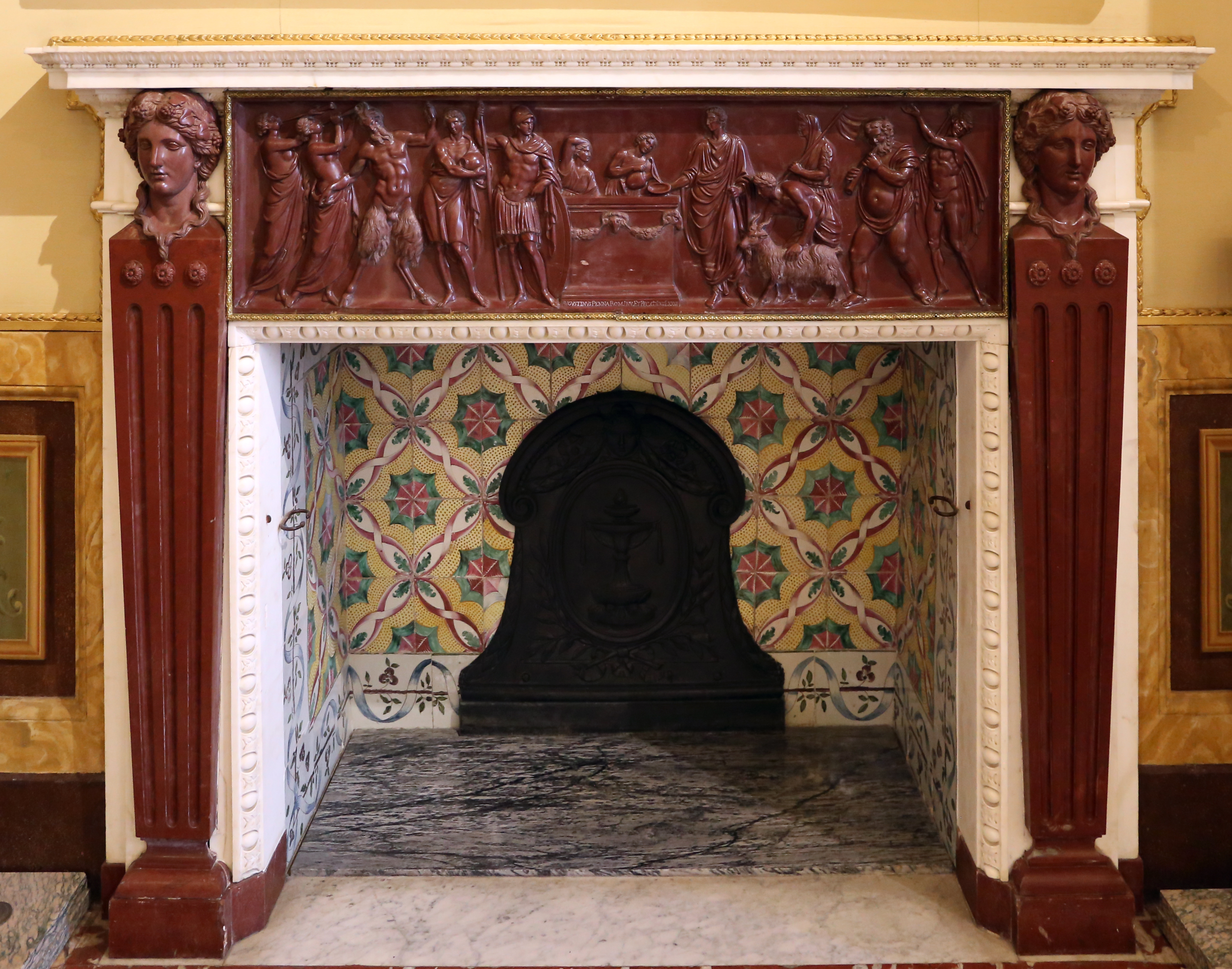 Sculptures in the Galleria Borghese (Rome)